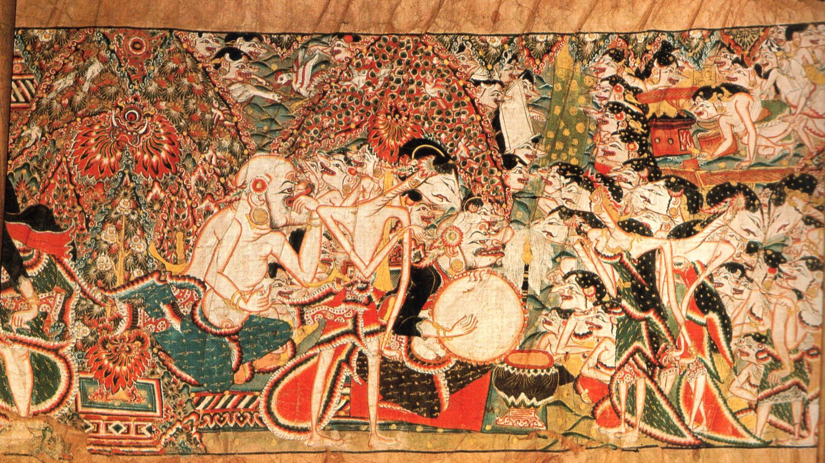 Wayang beber Gedompol, picture roll 1, scene 4. Princess Sekar Taji and Panji meet in Paluhamba market